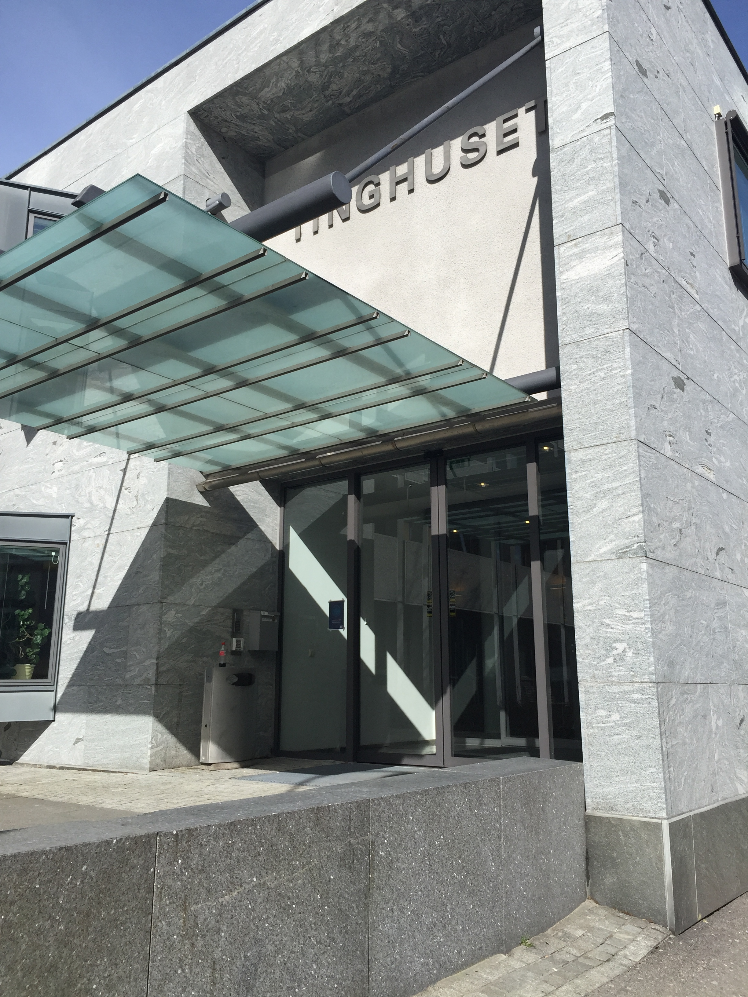 Courthouse in Kristiansand